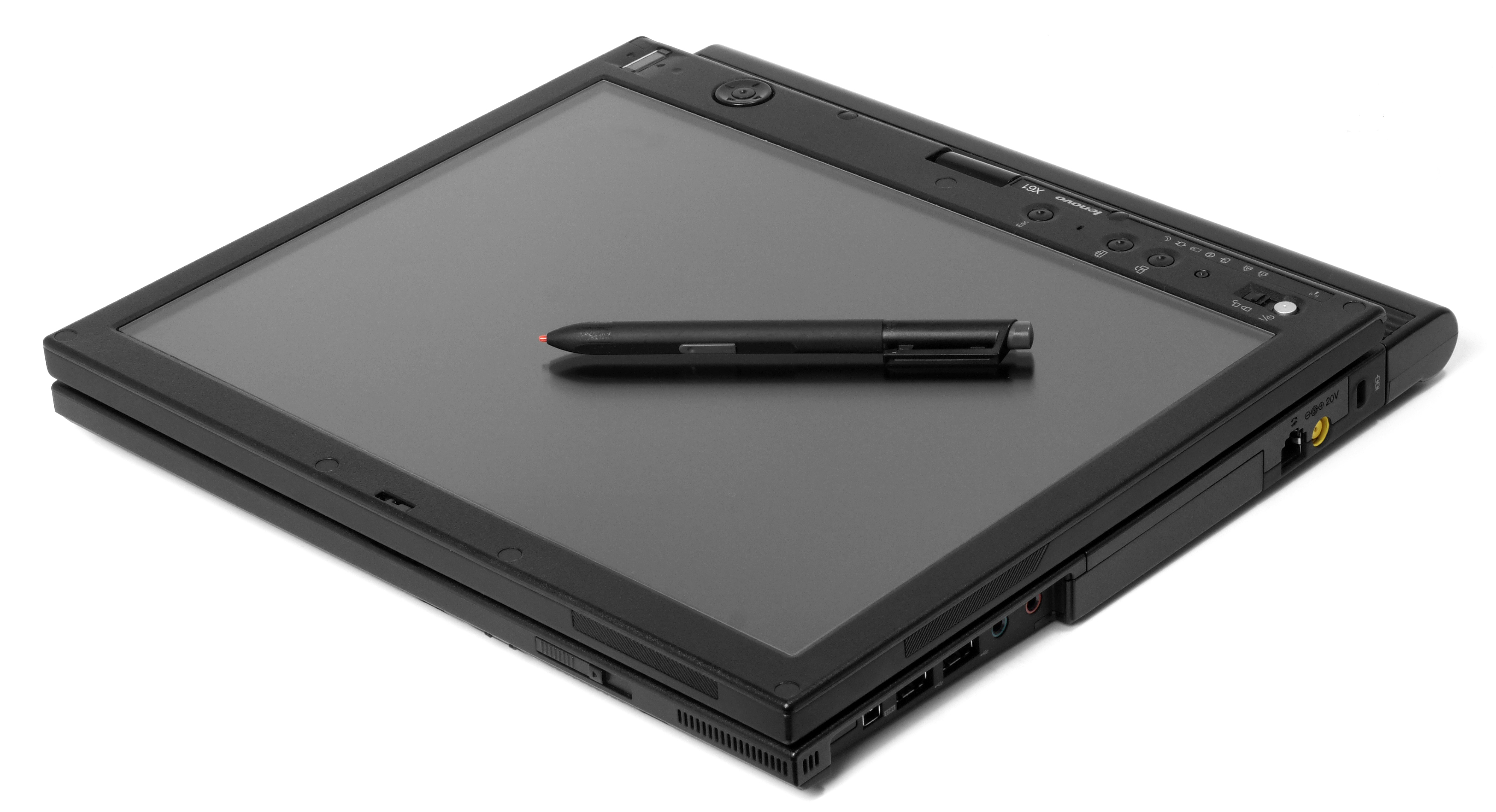 A Lenovo X61 tablet laptop shown in tablet mode, with its built-in stylus out.